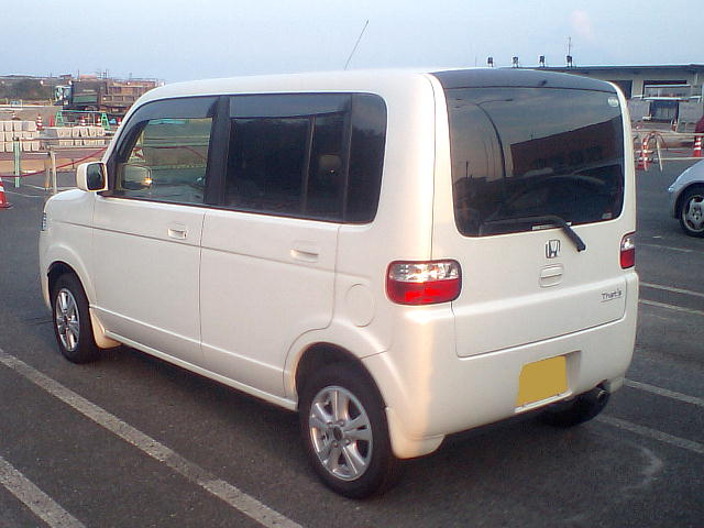 Honda "That's"